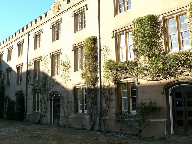 New Court, Emmanuel College This was newly built in 1824-25, when the college was extended to accommodate the expected growth in numbers after the Napoleonic Wars.